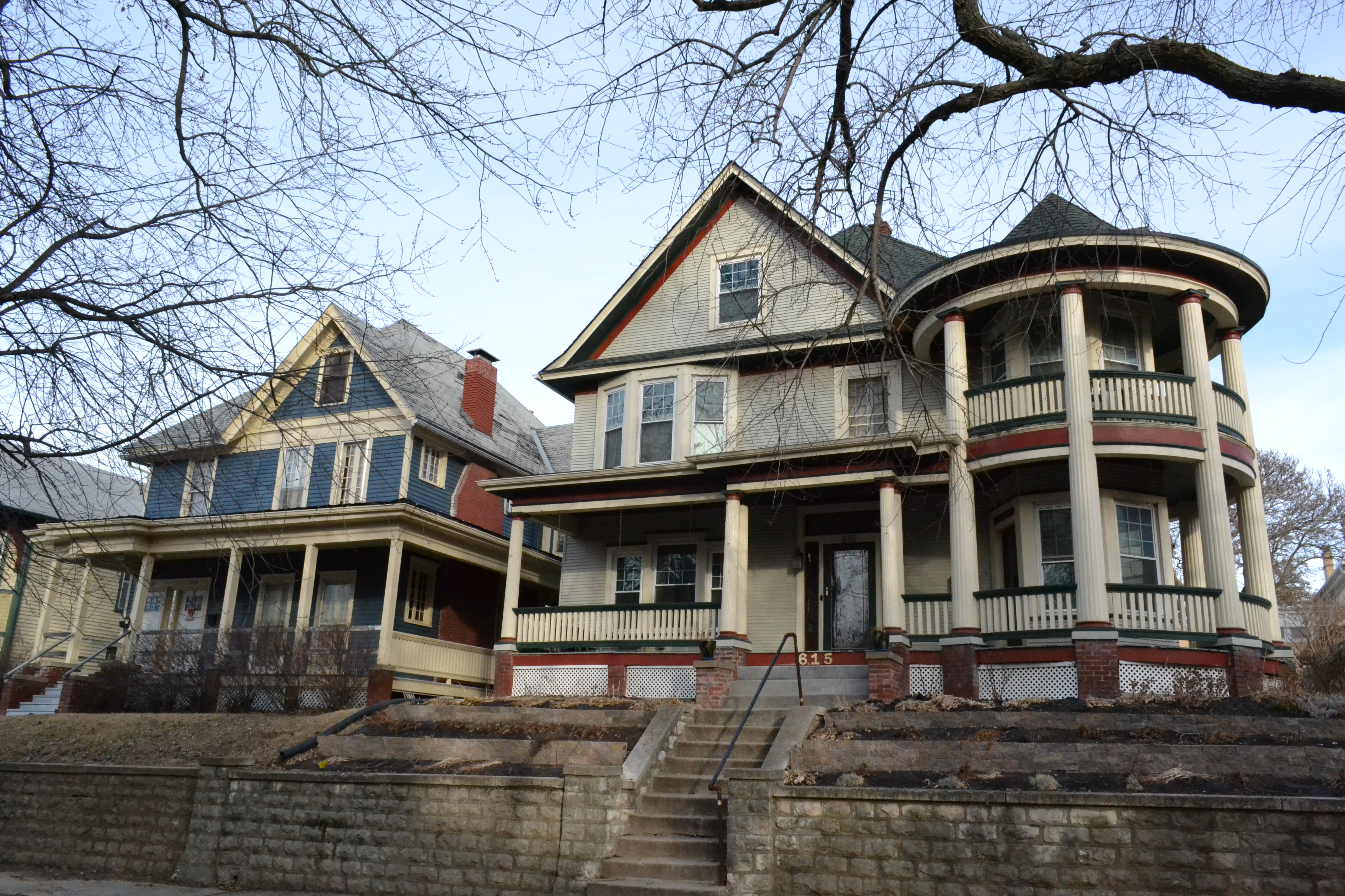 The Spencer House (right) and the Hutchings House (left) in St. Joseph, Missouri. Parts of the Kemper Addition Historic District.